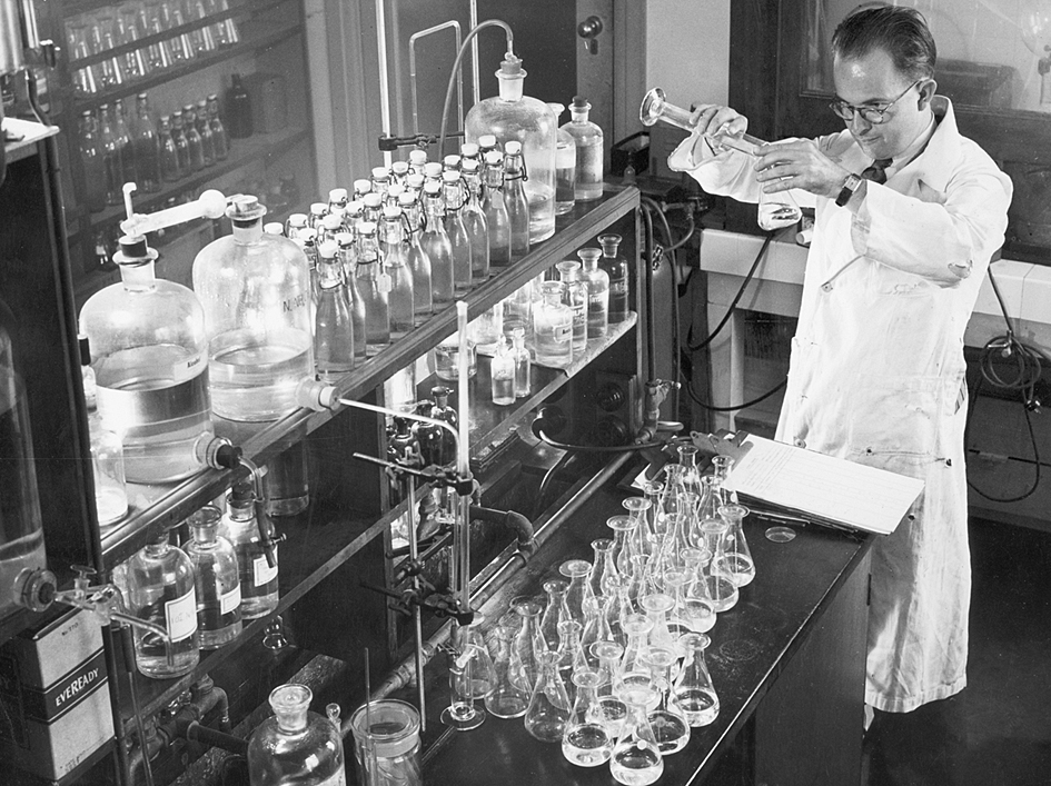 At the hydrological laboratory in the Division of Fisheries, a scientist analyses sea water to determine phosphate content.